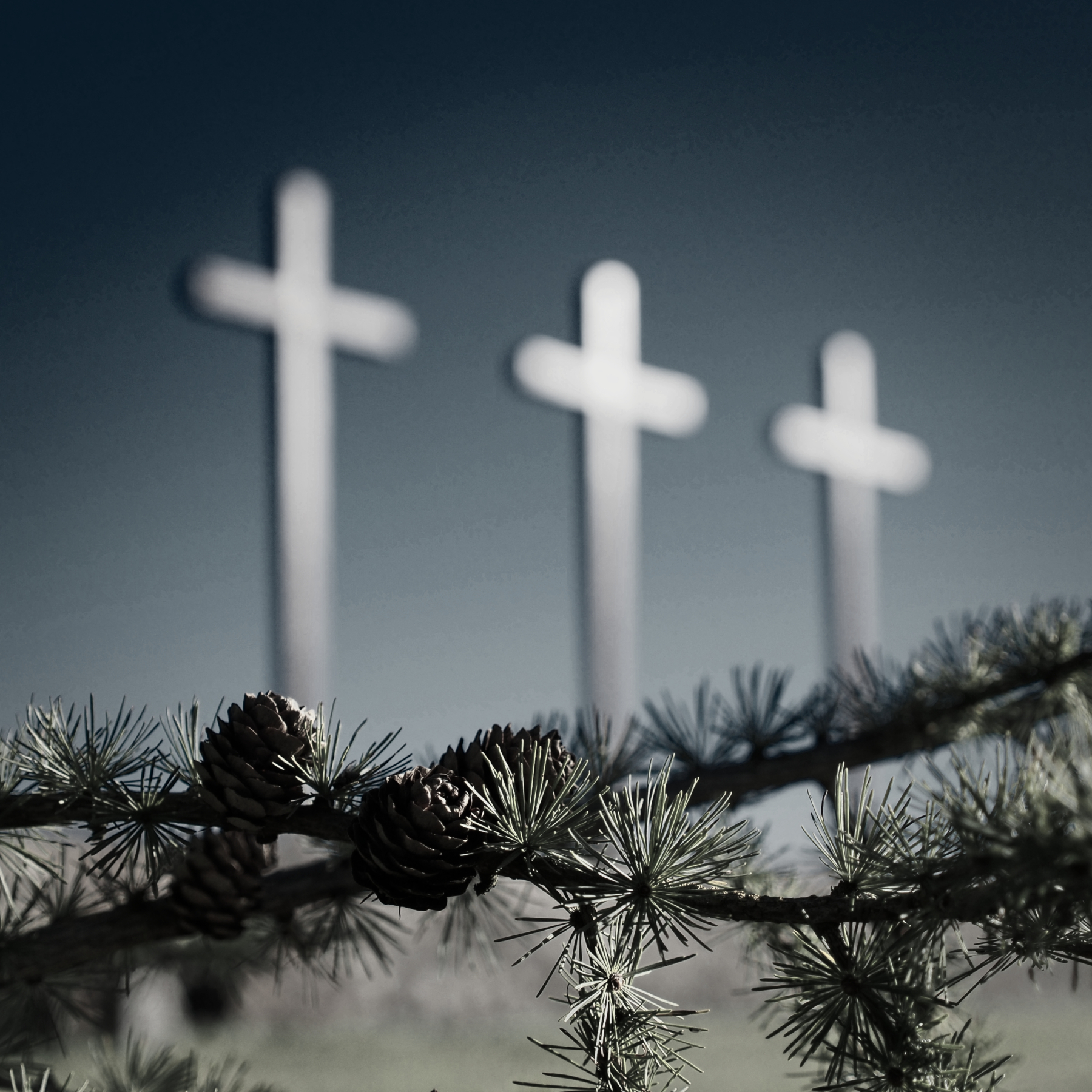 Bartosze close Ełk - the German soldiers' cemetery killed during The First and The Second World War - September 2016